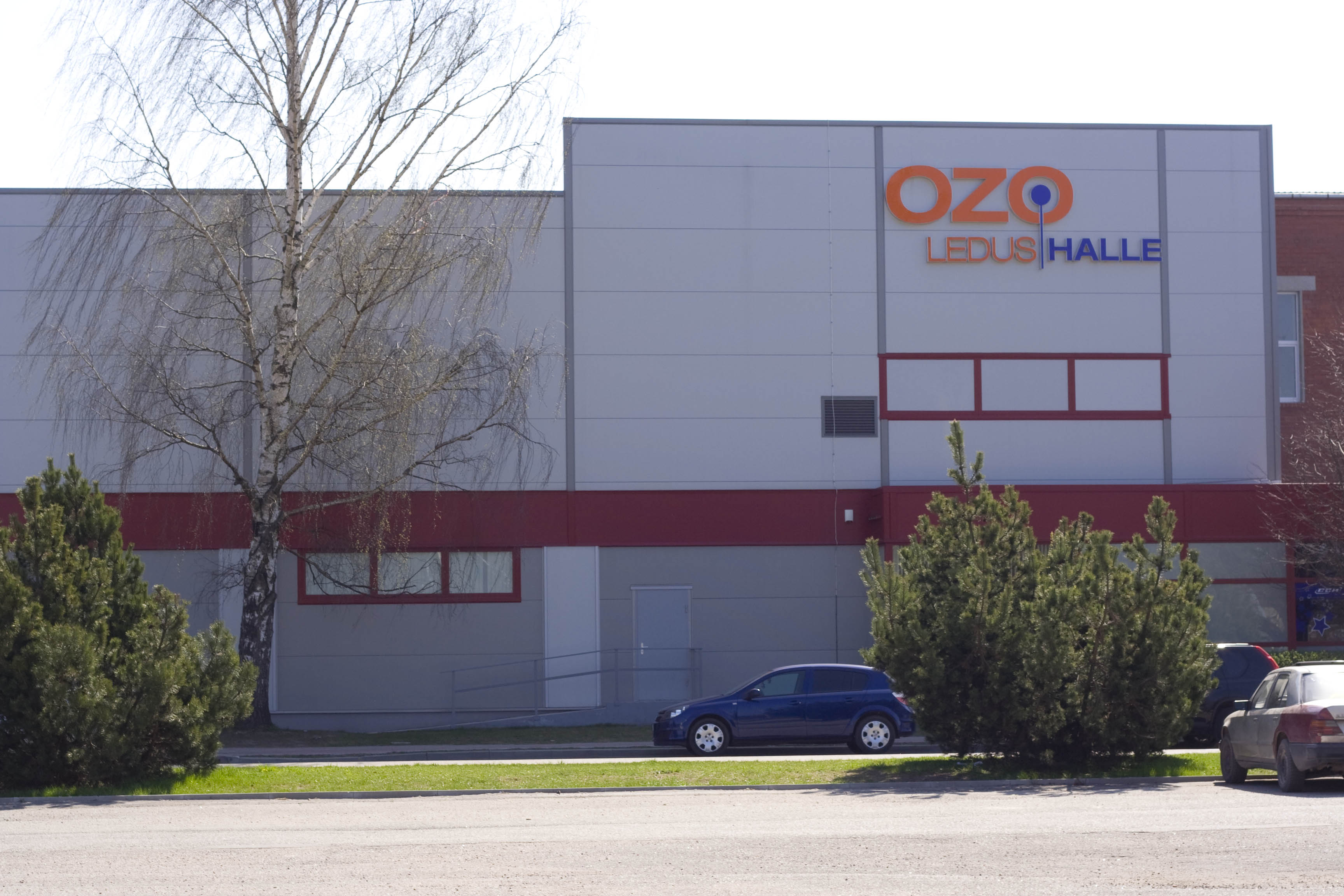 Ozo Ice Hall in Ozolnieki village, Latvia, built in 2008.